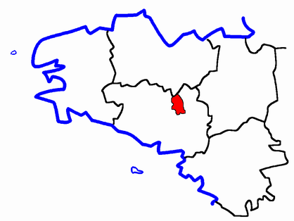 Description: Map for localisazion of cantons of Bretagne region in France Source: made by Hervé Tigier in april 2005 from another large map (published in 1990)